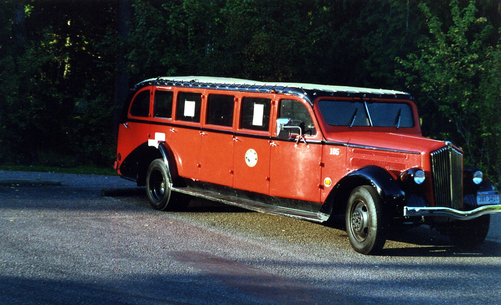 20000920 08 Bus, Glacier National Park